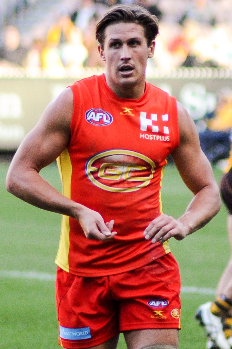 David Swallow during the AFL round twelve match between Melbourne and Collingwood on 10 June 2017 at the Melbourne Cricket Ground in Melbourne, Victoria.